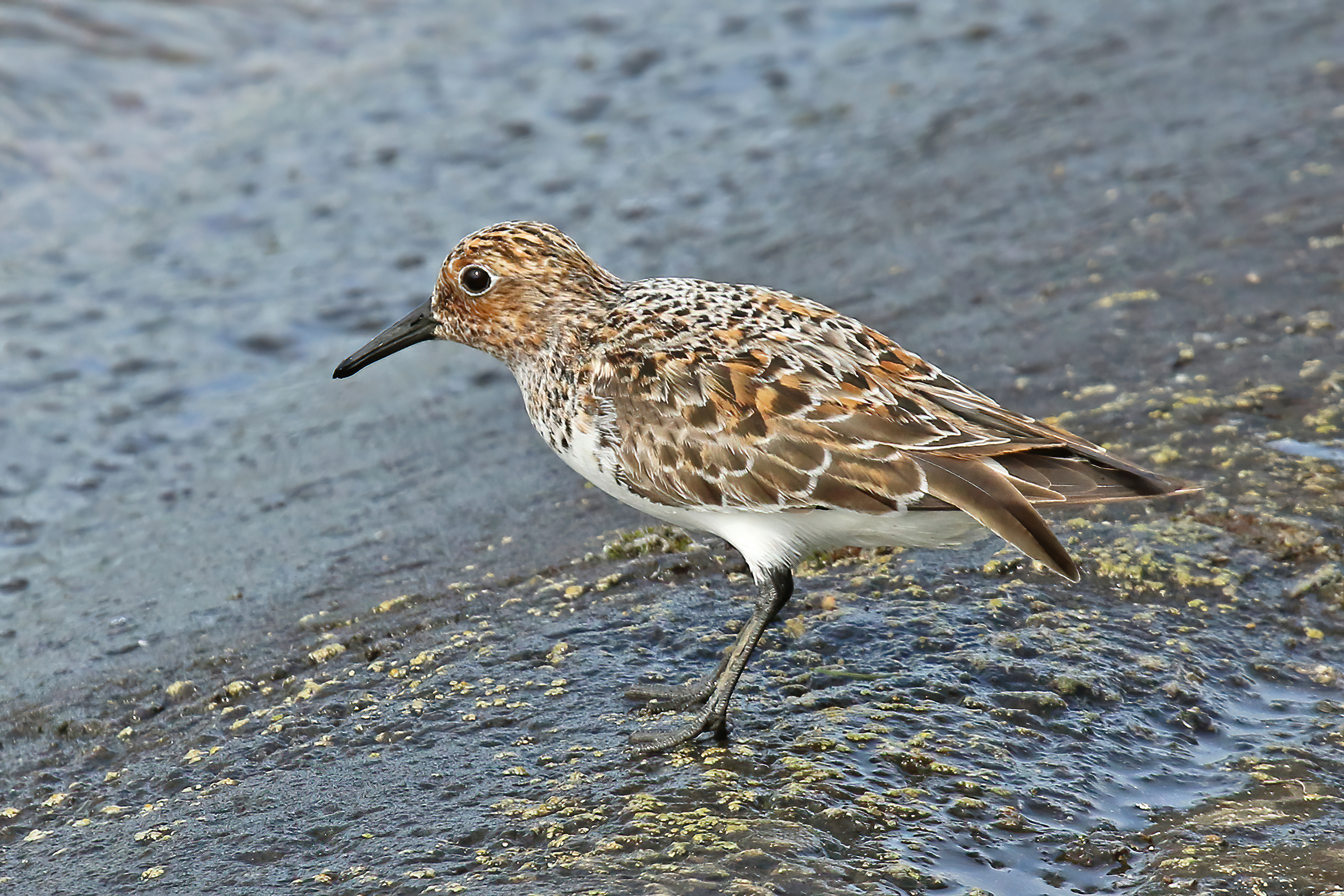 Sanderling (Calidris alba) breeding plumage, Farmoor Reservoir, Oxfordshire